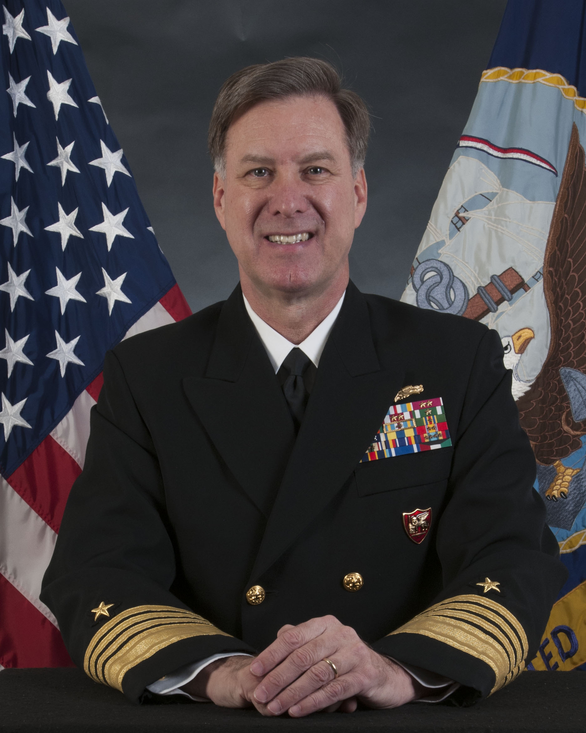 Admiral Mark Ferguson, Commander, Allied Joint Force Command Naples, Commander, U.S. Naval Forces Europe, Commander, U.S. Naval Forces Africa